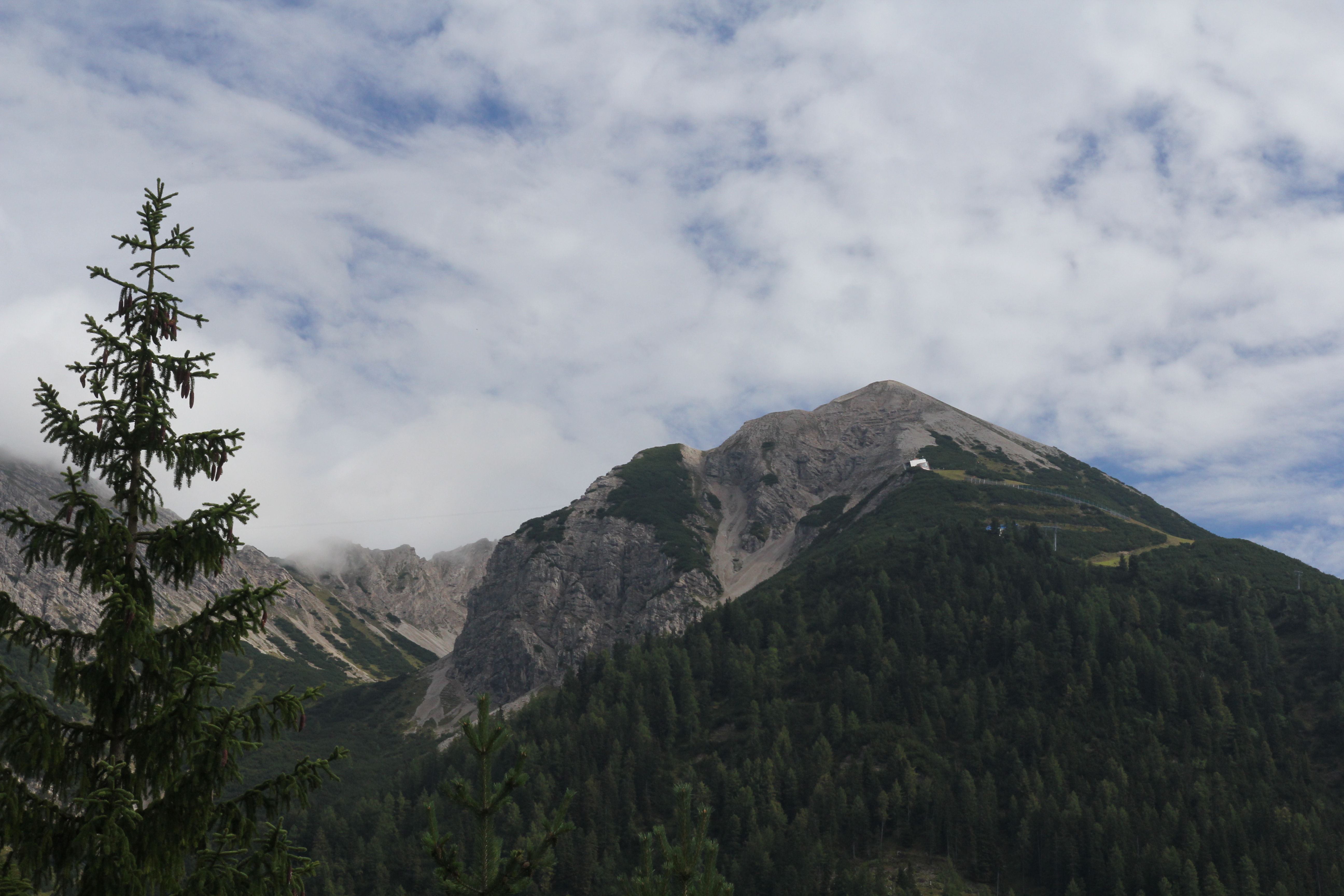 The Härmelekopf, near Seefeld in Tirol, Austria, seen from the mountainside below the Rosshütte to the north.